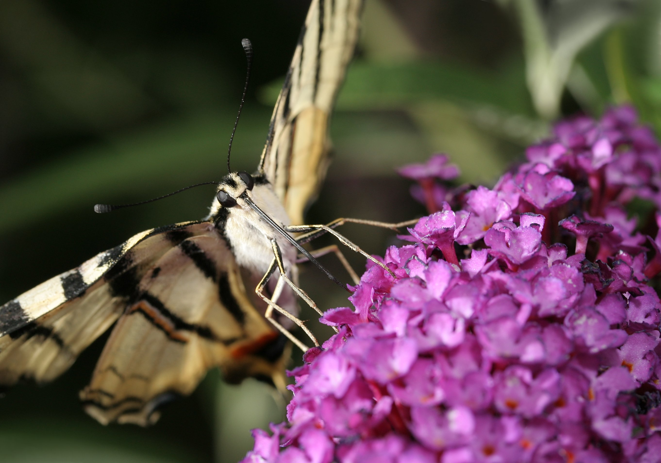 Iphiclides podalirius is feeding itself